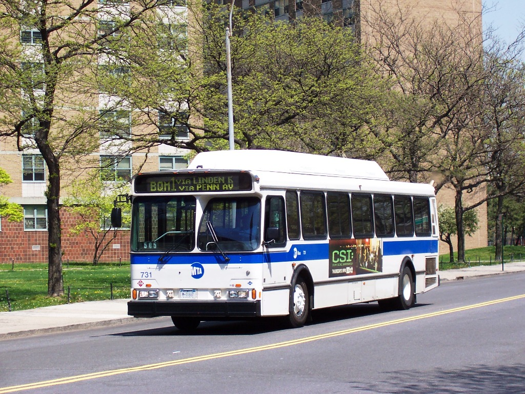 MTA Bus 731 in Spring Creek, Brooklyn (former Command Bus Company 4955), on the BM5 (then the BQM1) line.